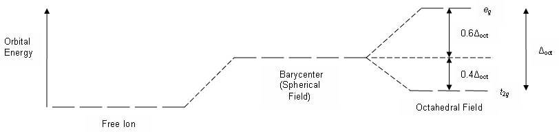 Crystal field splitting stabilization energy